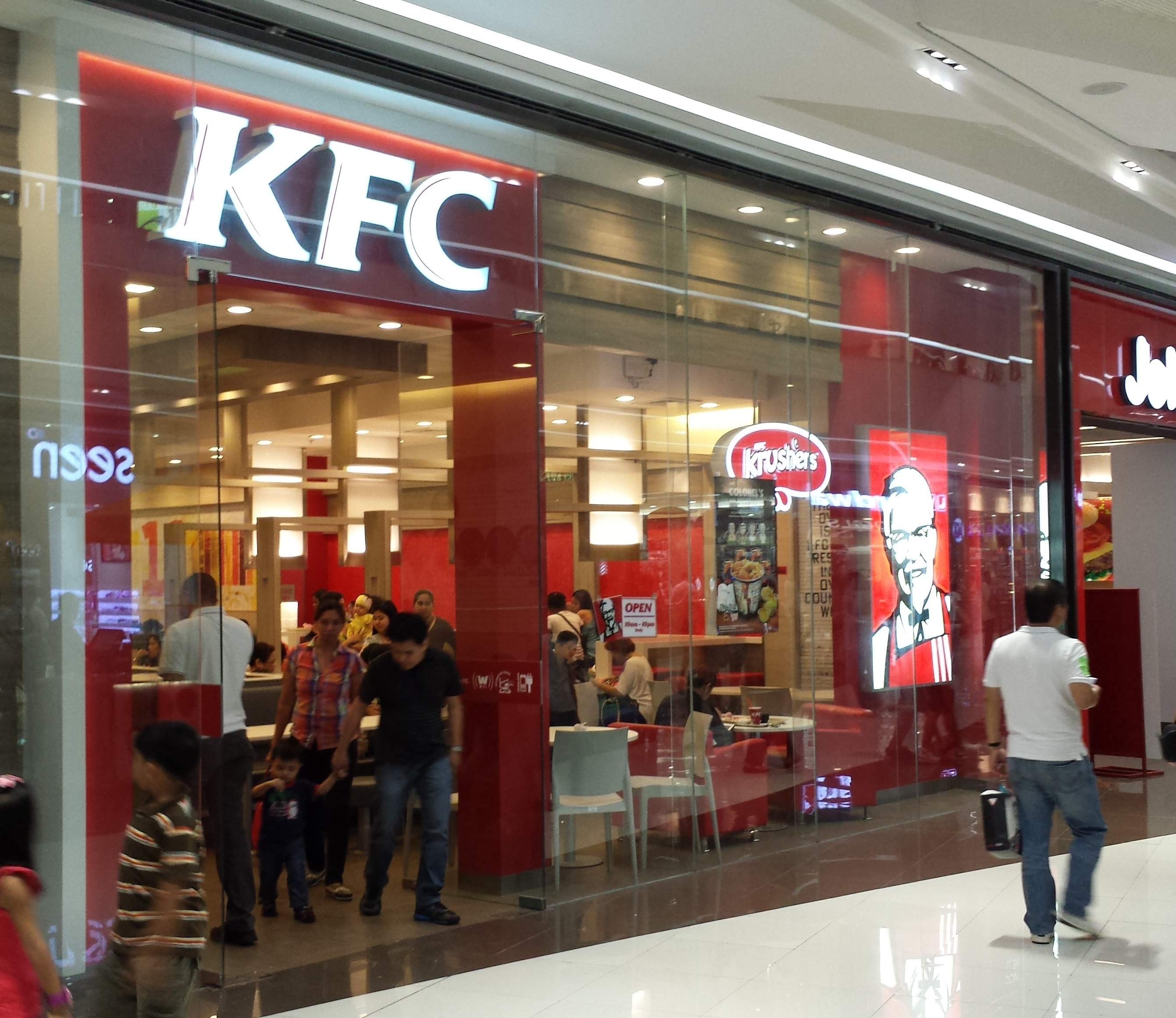 Kentucky Fried Chicken (KFC) in the shopping mall 'SM Aura Premier' in Bonifacio Global City, Metro Manila, Philippines.